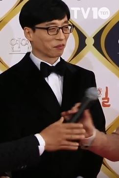 Yoo Jae-seok at the 2016 KBS Entertainment Awards